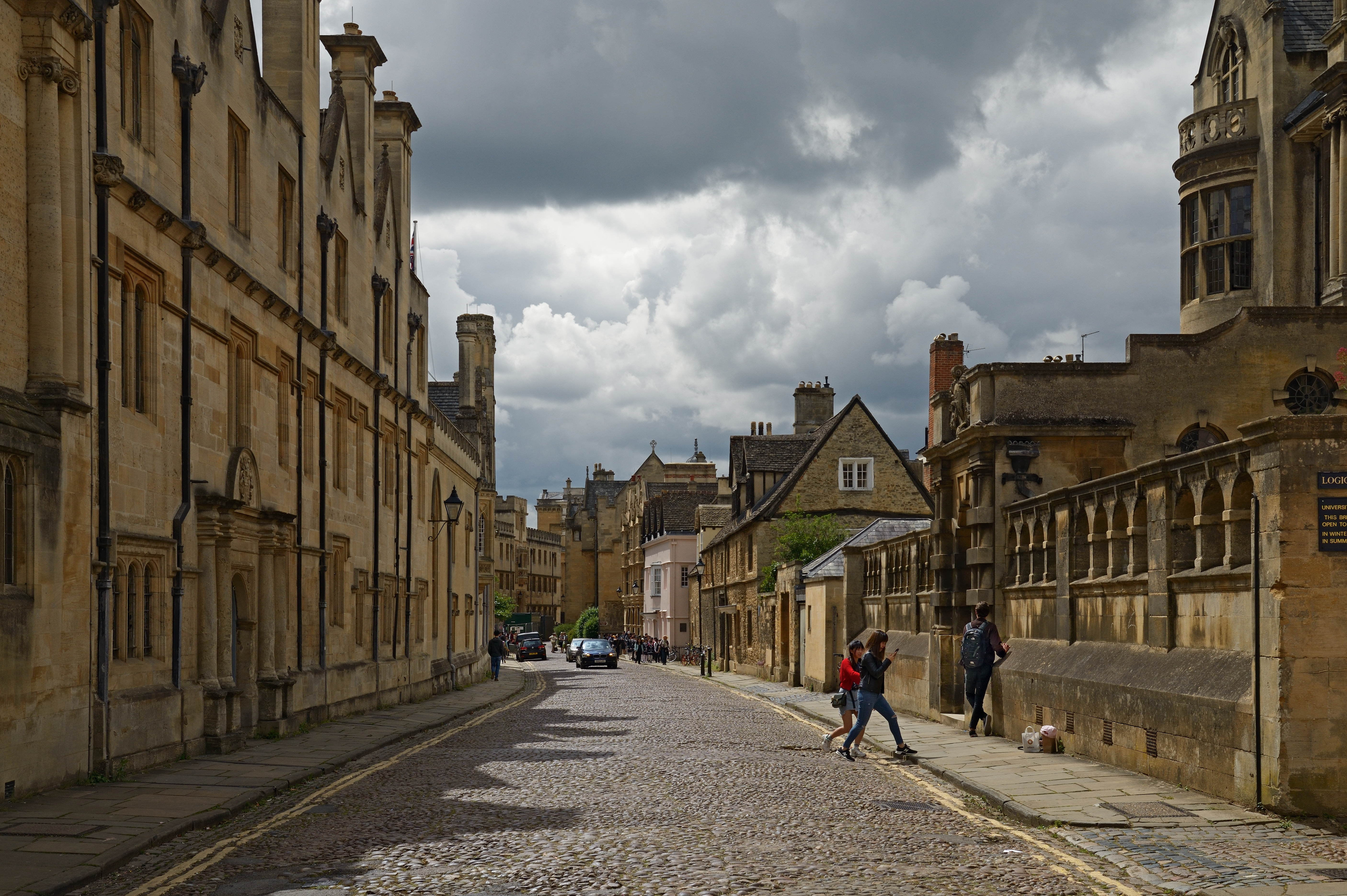 Merton Street. Oxford, UK